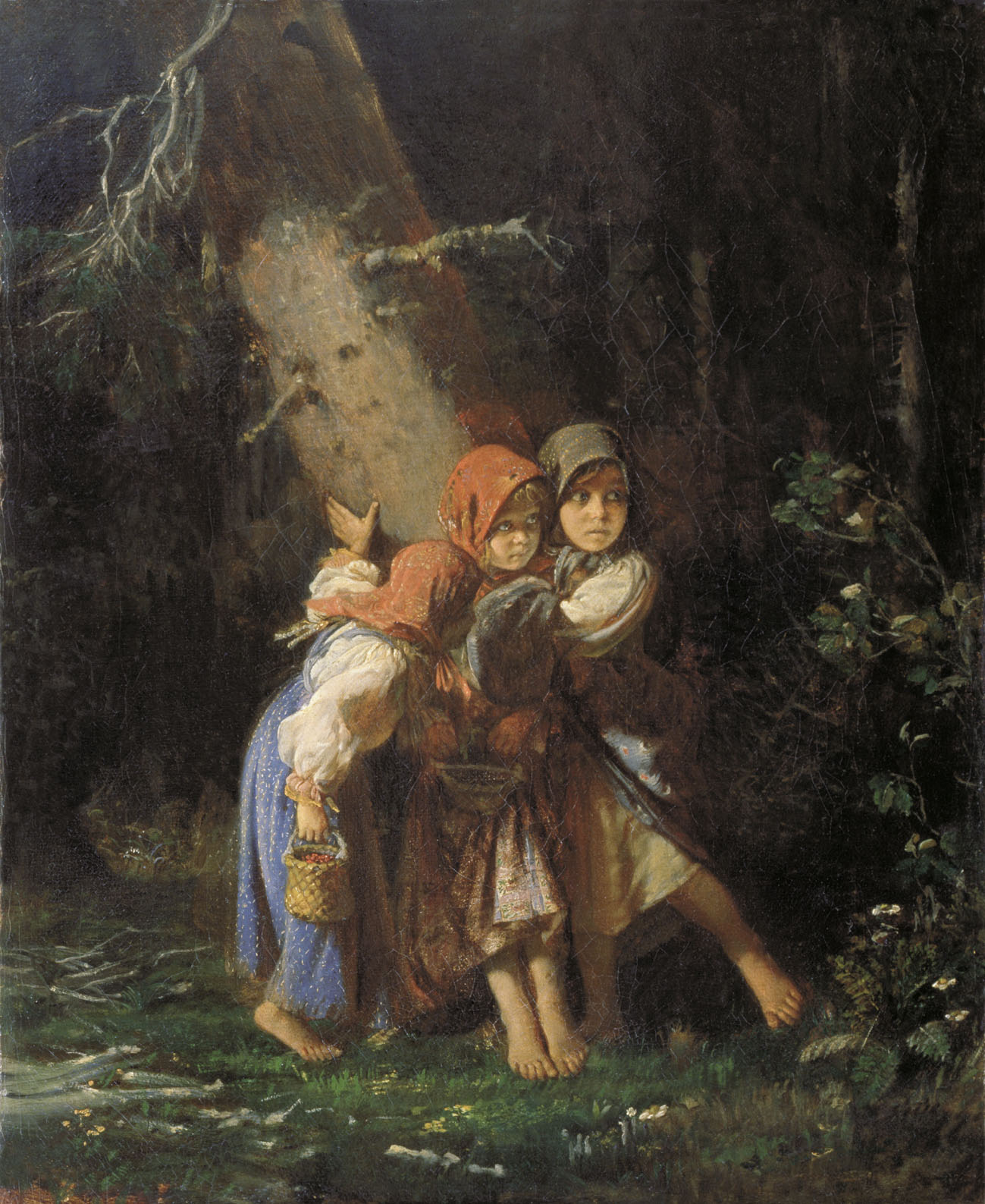 Alexey Korzukhin. Peasant Girls in the Forest, 1877